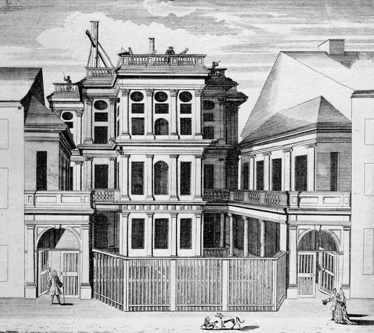 Observatory of Mr. von Kroseck, copperplate by Georg Paul Busch, 1710